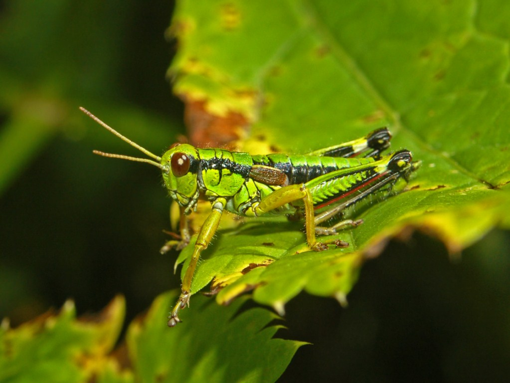 Miramella alpina - male